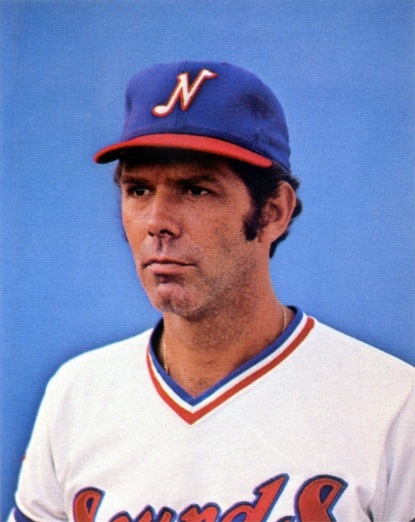 Pitching coach Pat Dobson of the 1980 Nashville Sounds Minor League Baseball team of the Southern League